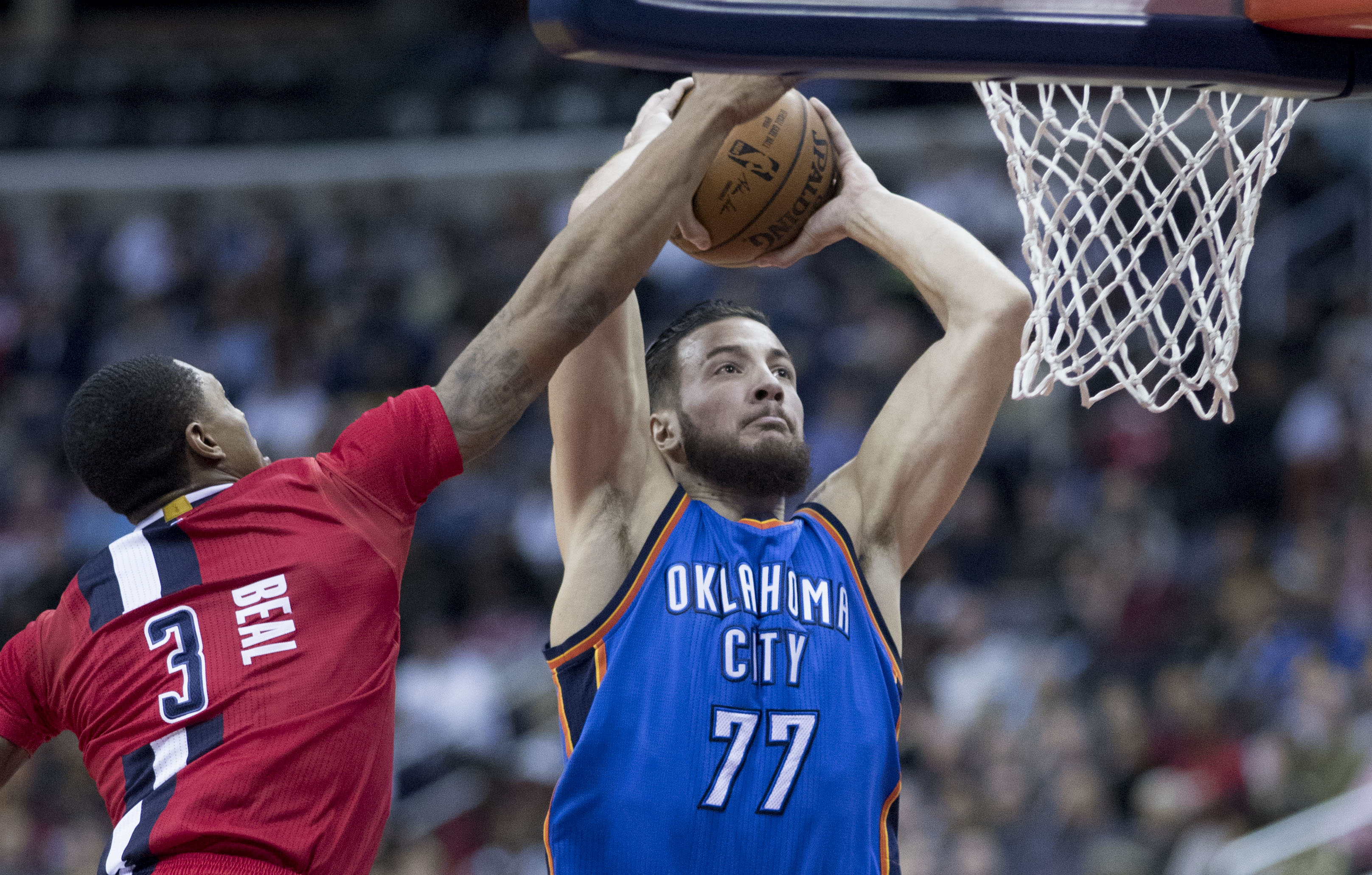 Thunder at Wizards 2/13/17